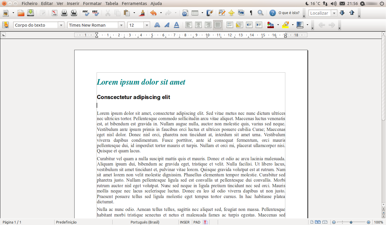 Screenshot of LibreOffice Writer in Ubuntu